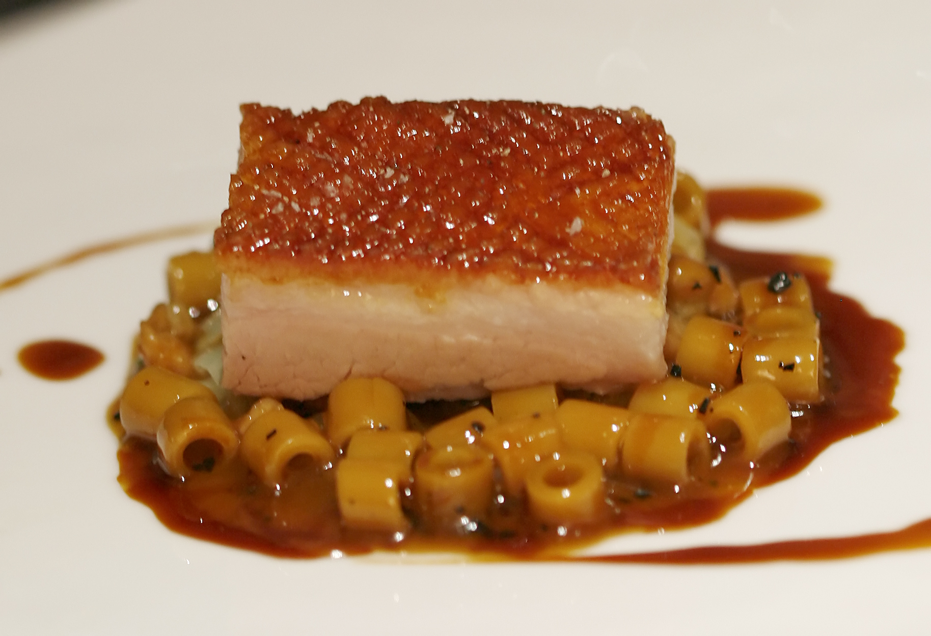 Pork Belly.